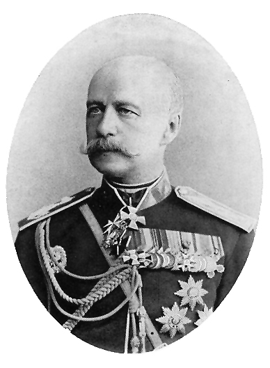 Georgian nobleman and Imperial Russian general Alexander Imeretinsky